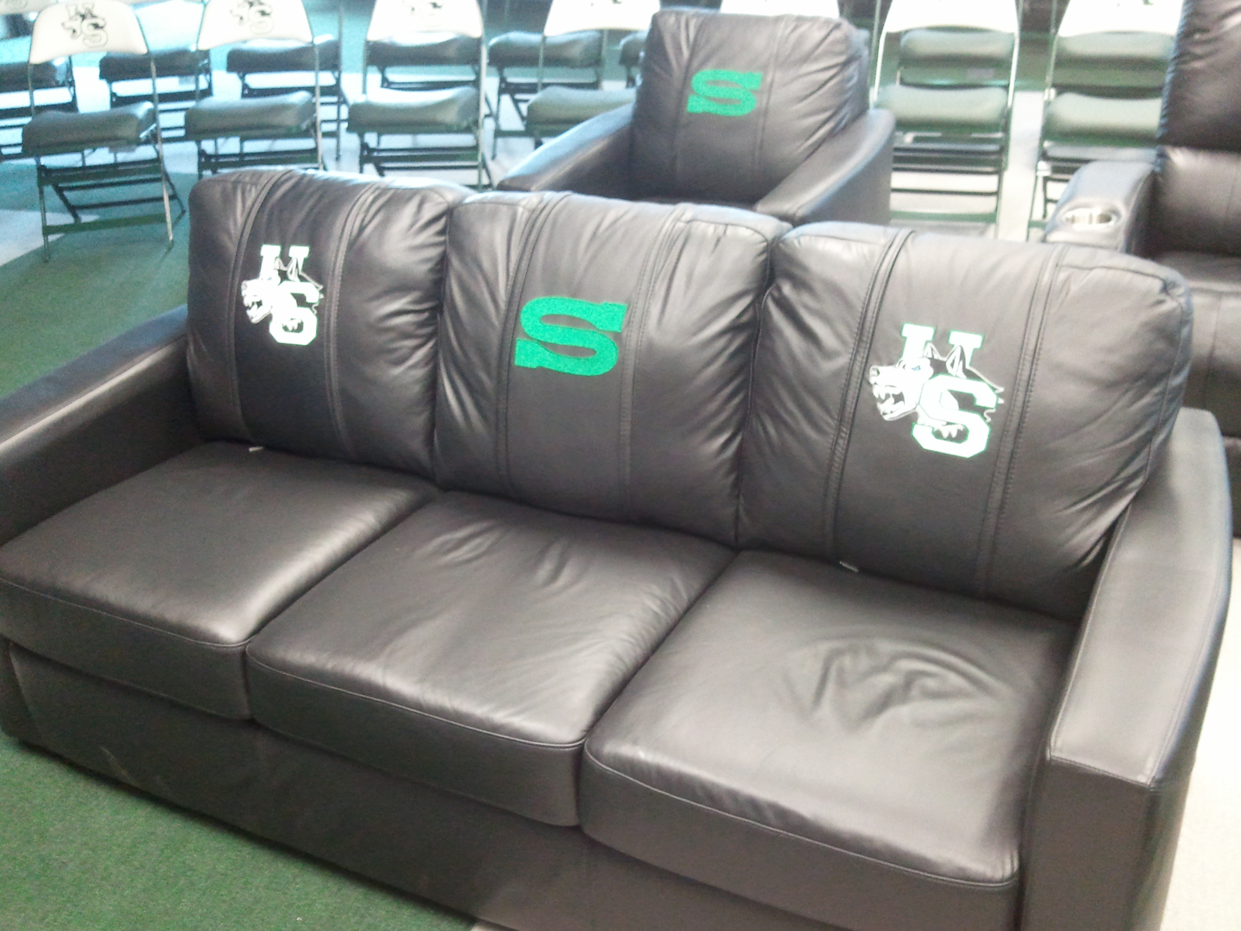 Couch in Graham Huskies Clubhouse